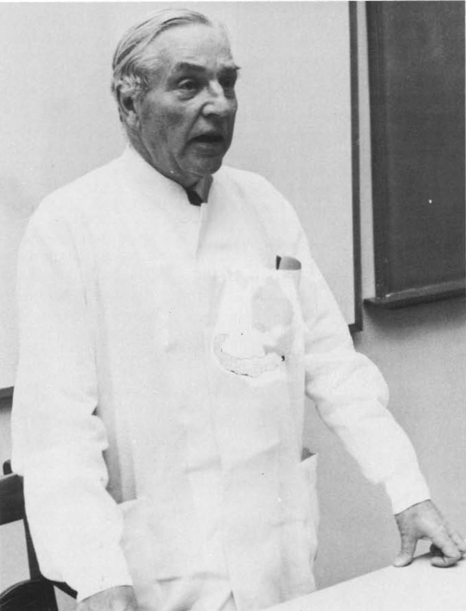 Photograph of the Finnish psychiatrist Martti Kaila (1900–1978) giving a lecture at Helsinki University.